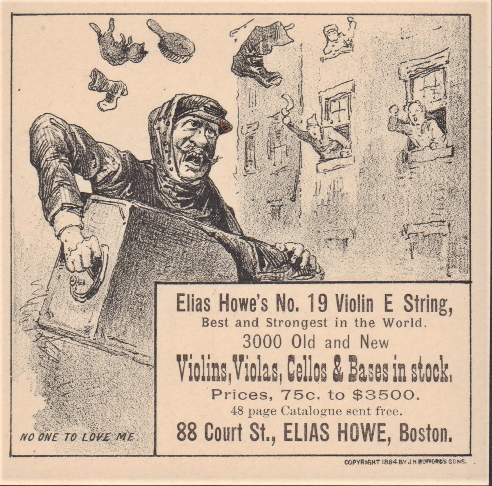 Published (see lower right) by J. M. Bufford's Sons Lithographers, Boston MA 1894 for Elias Howe 88 Court Street, Boston. Present site of City Hall Plaza